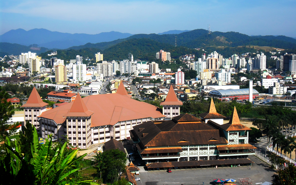 View of Brusque downtown